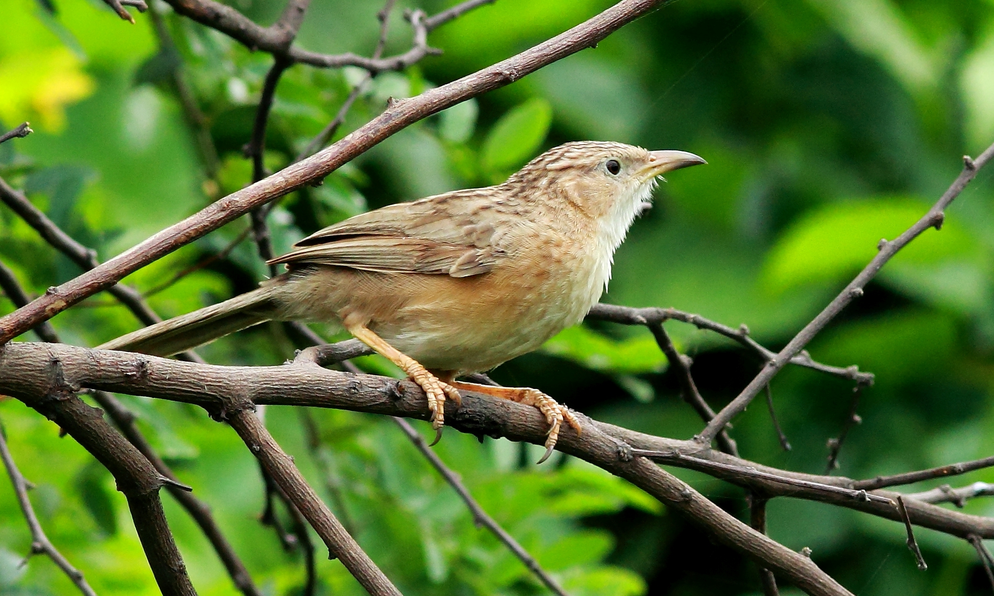 The Common Babbler Turdoides caudata is a member of the family Leiothrichidae. They are found in dry open scrub country mainly in India.